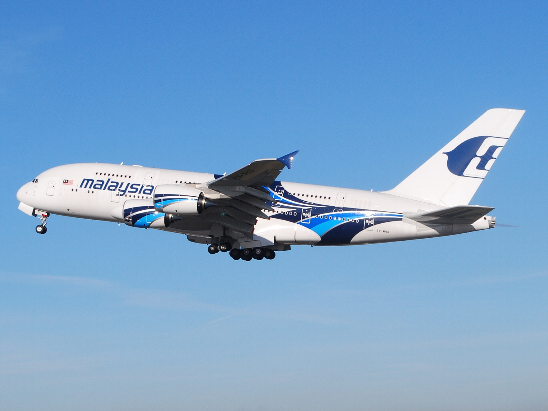 9M-MNB at Heathrow,airborne off 27Right